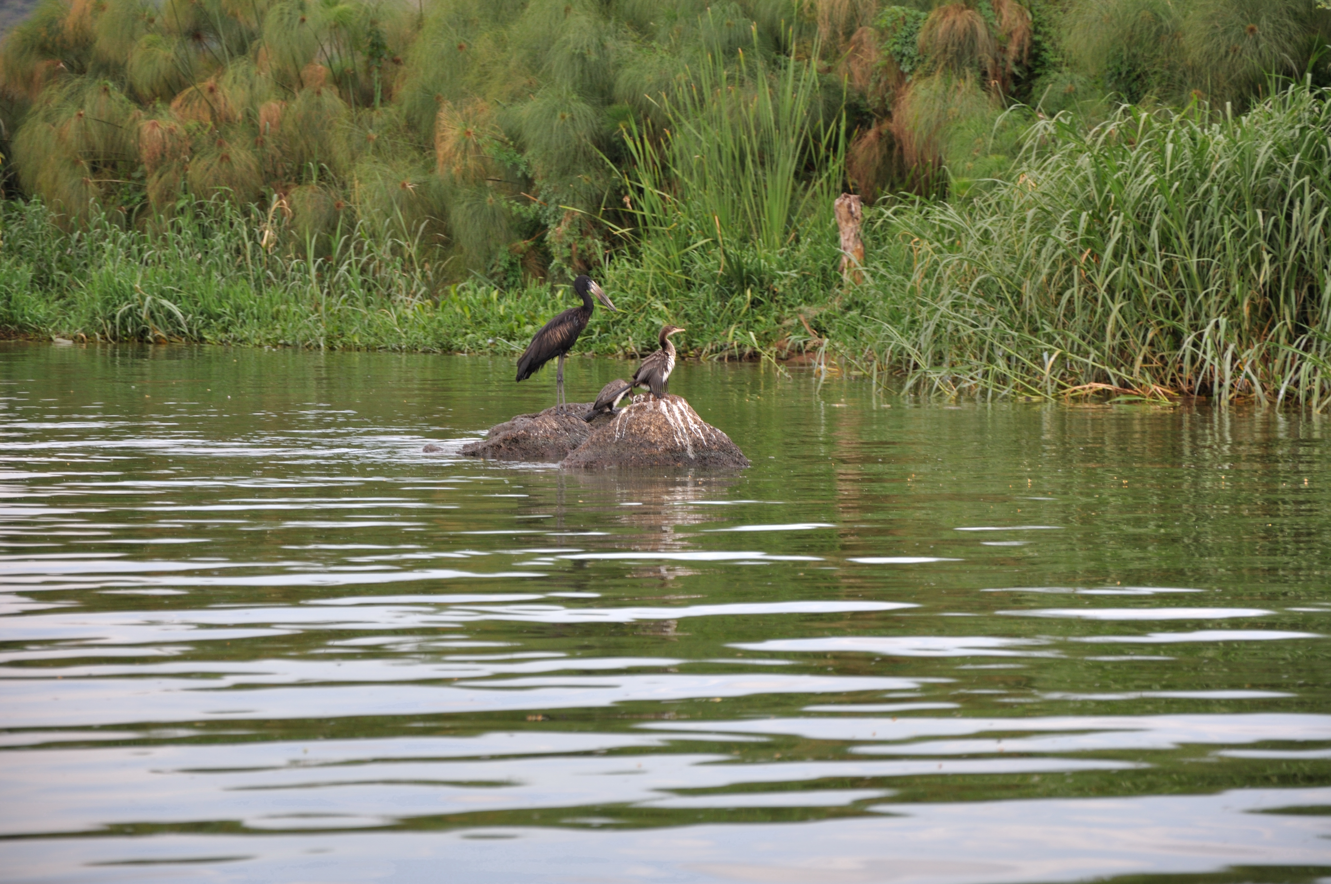 Uganda, Boat trip on Lake Victoria